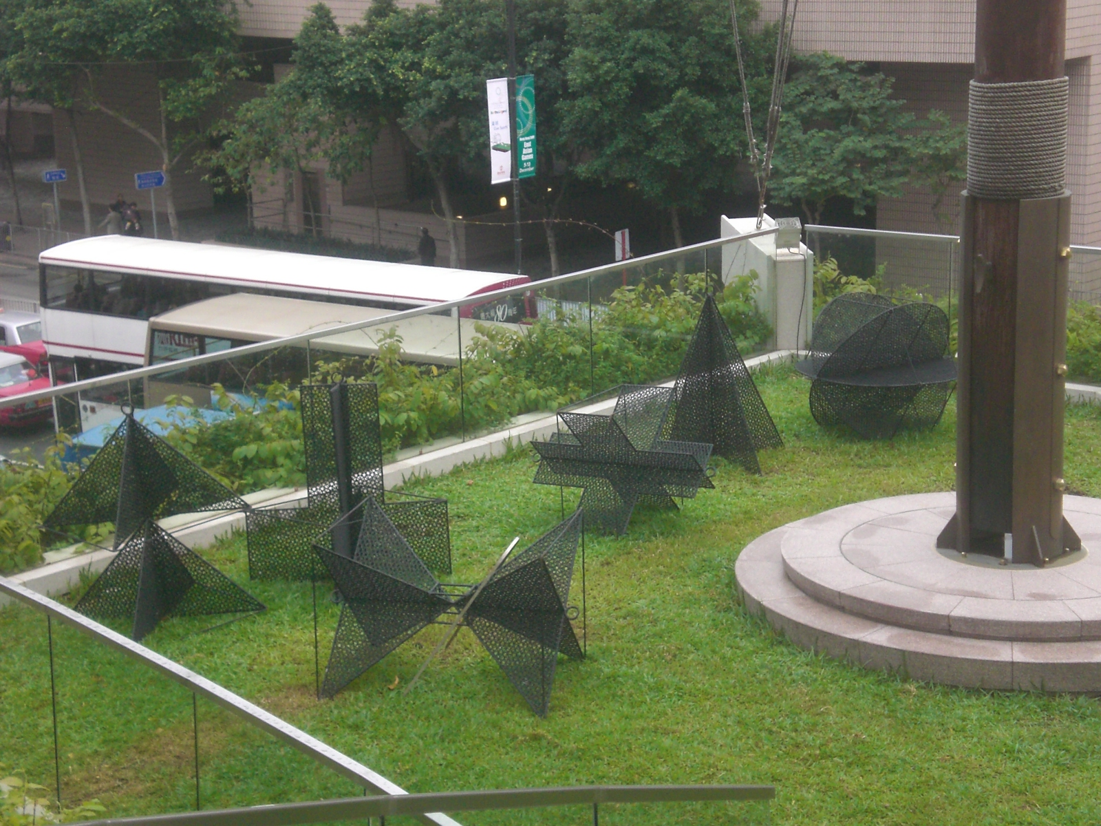 尖沙咀zh:1881 Heritage